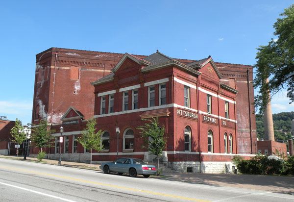 Picture of the former Pittsburgh Brewing Company building at 3340 Liberty Avenue in the Lawrenceville neighborhood of Pittsburgh, Pennsylvania, on July 18, 2010. Built in 1886, architect Nic Kessler. This facility closed in 2009, and operations moved to the Latrobe Brewing Company in Latrobe, Pennsylvania. [1] The former brewery is on the List of Pittsburgh Landmarks recognized by the Pittsburgh History and Landmarks Foundation (PHLF).